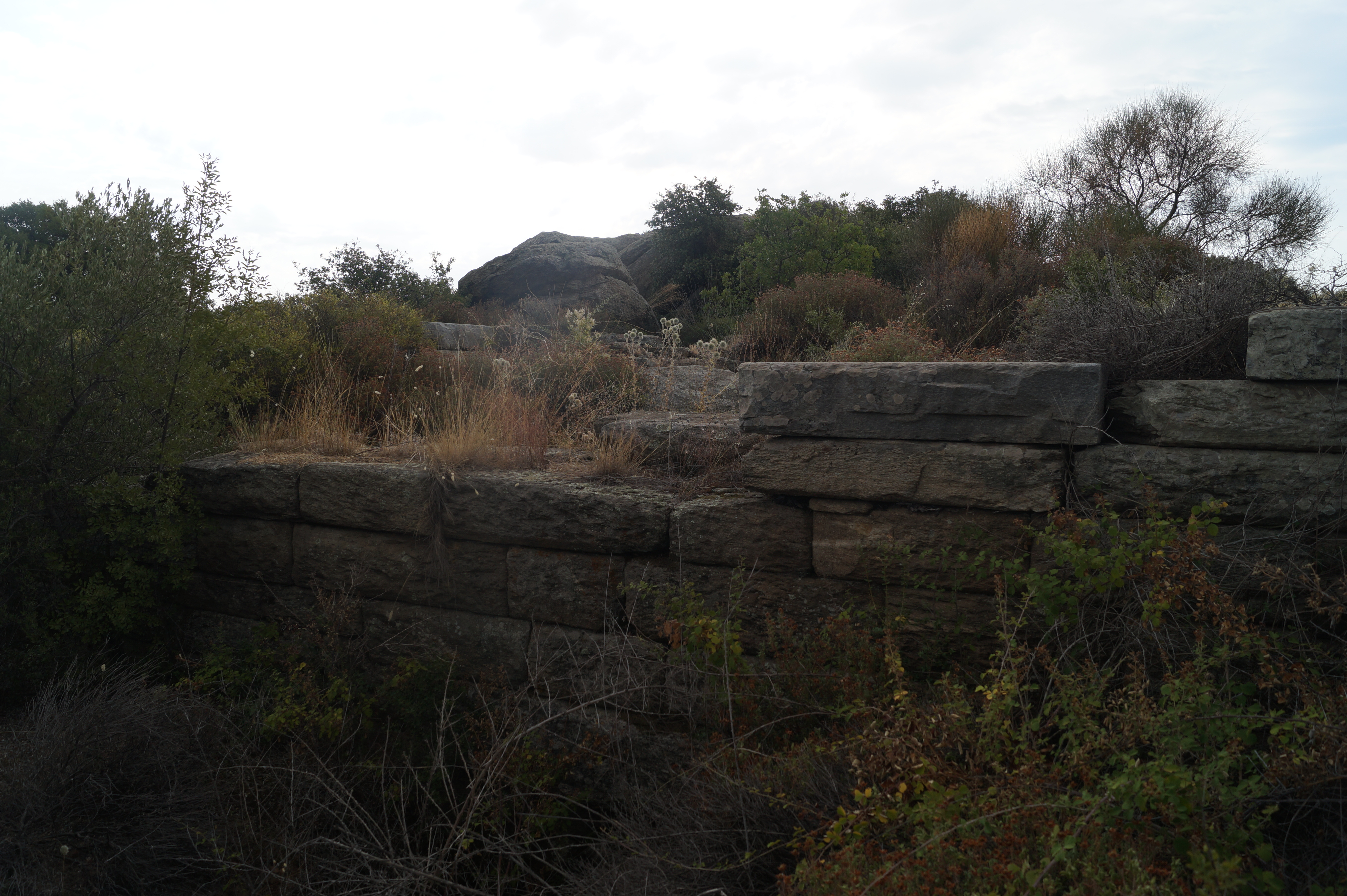 Nea Peramos, Makedonia, Greece: Archaeological site of Oesyme. Foundation of the temple of Athena Parthenos